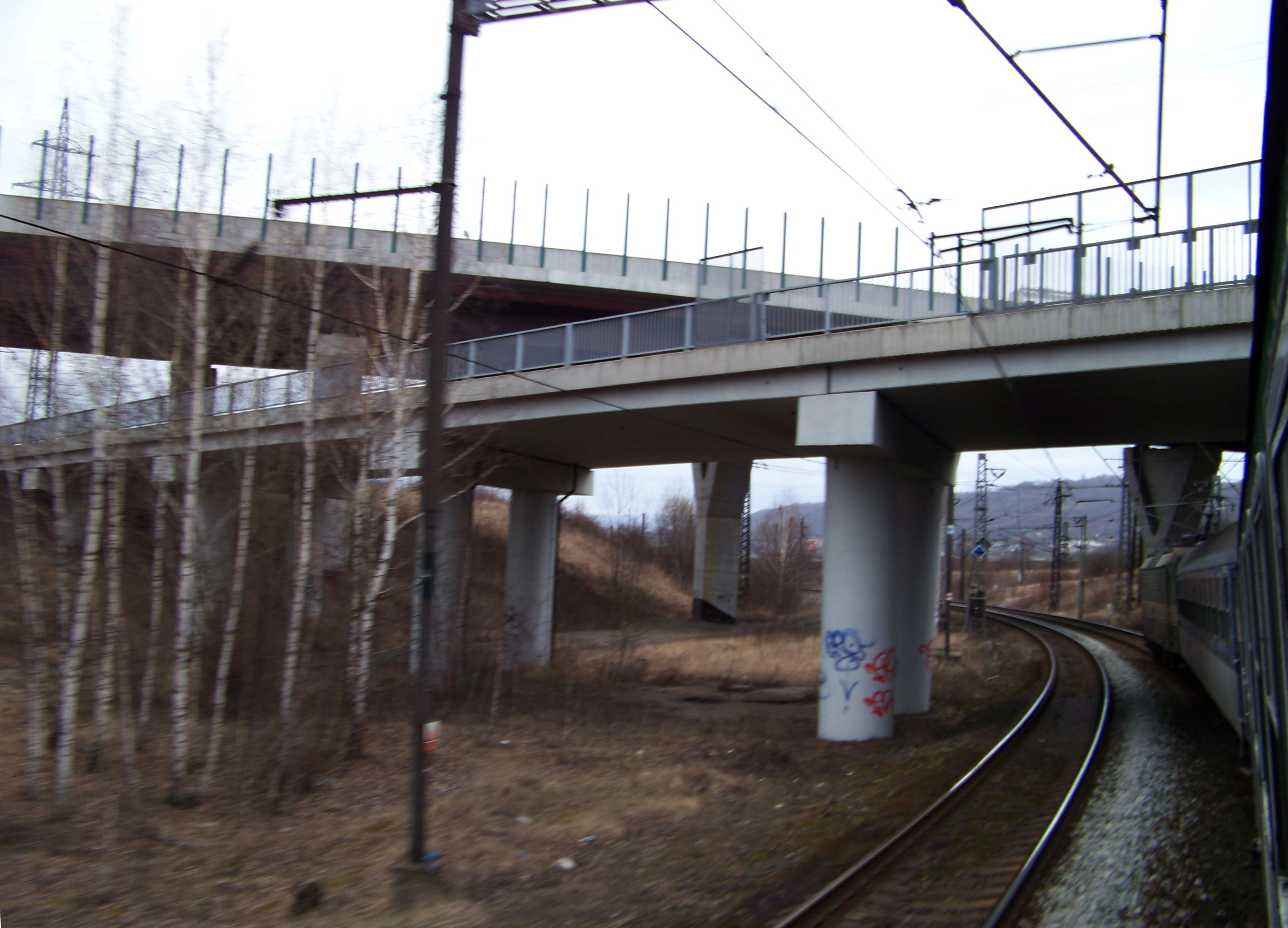 Ústí nad Labem-Předlice, Ústí nad Labem District, Ústí nad Labem Region, the Czech Republic. Highway D8.